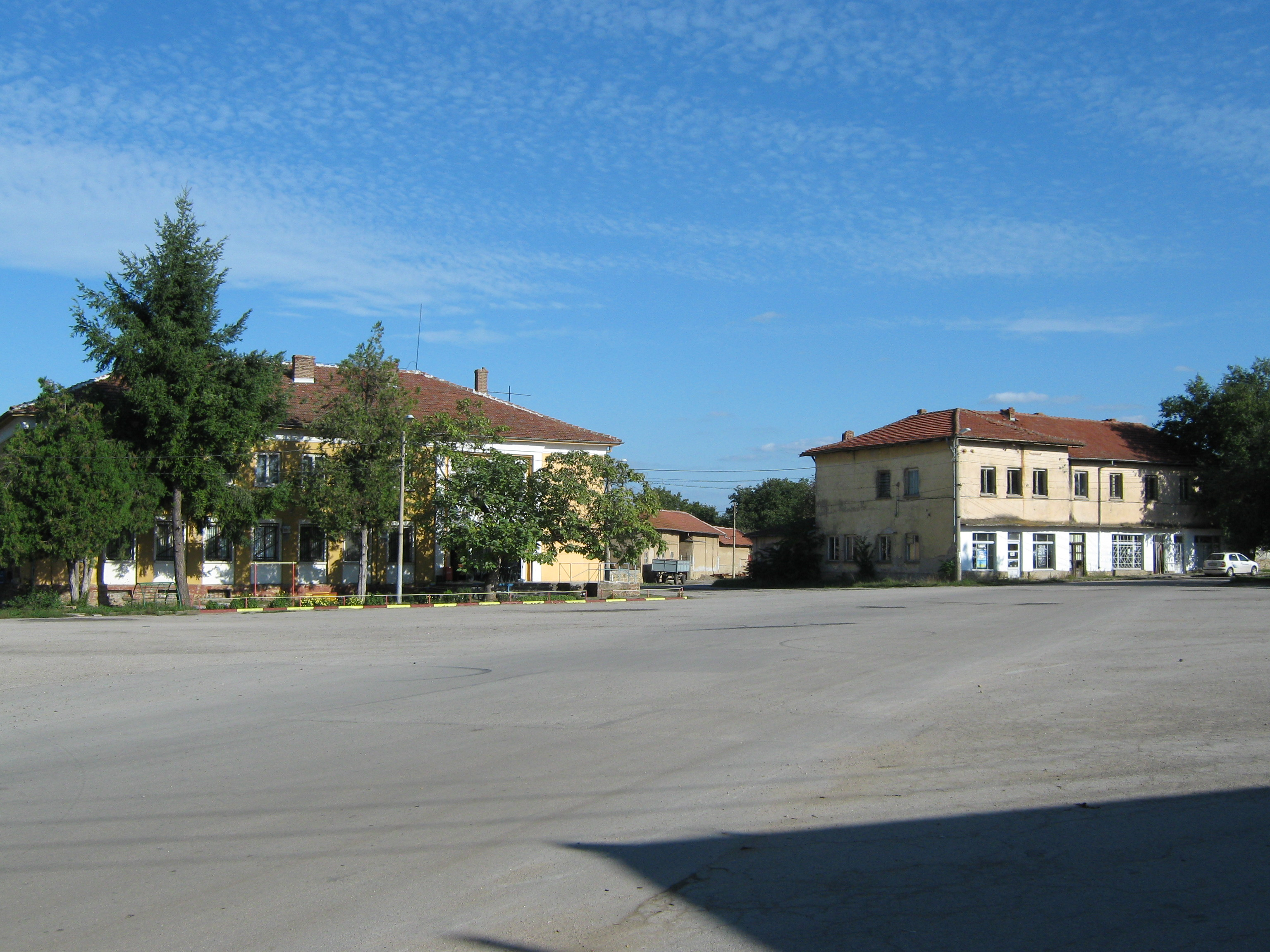 не